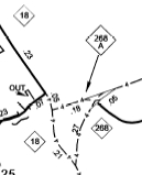 Small cut-out of the 2009 updated Wilkes County transportation map showing the continued existence of NC 268A. This is from the North Carolina Department of Transportation, a work of a state government agency.